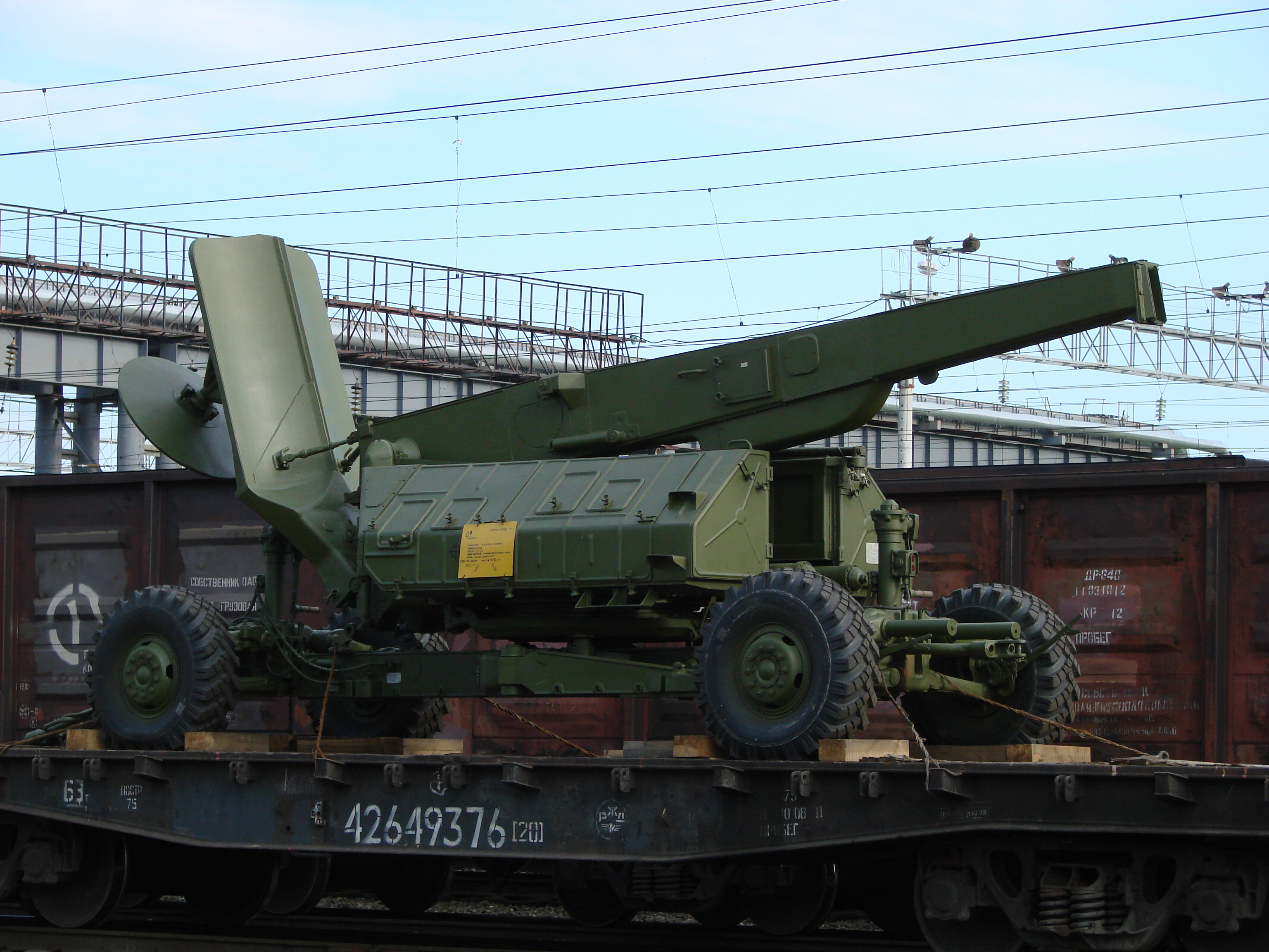 Russia, transporting сomponents SAM S-75 Dvina by railroad.